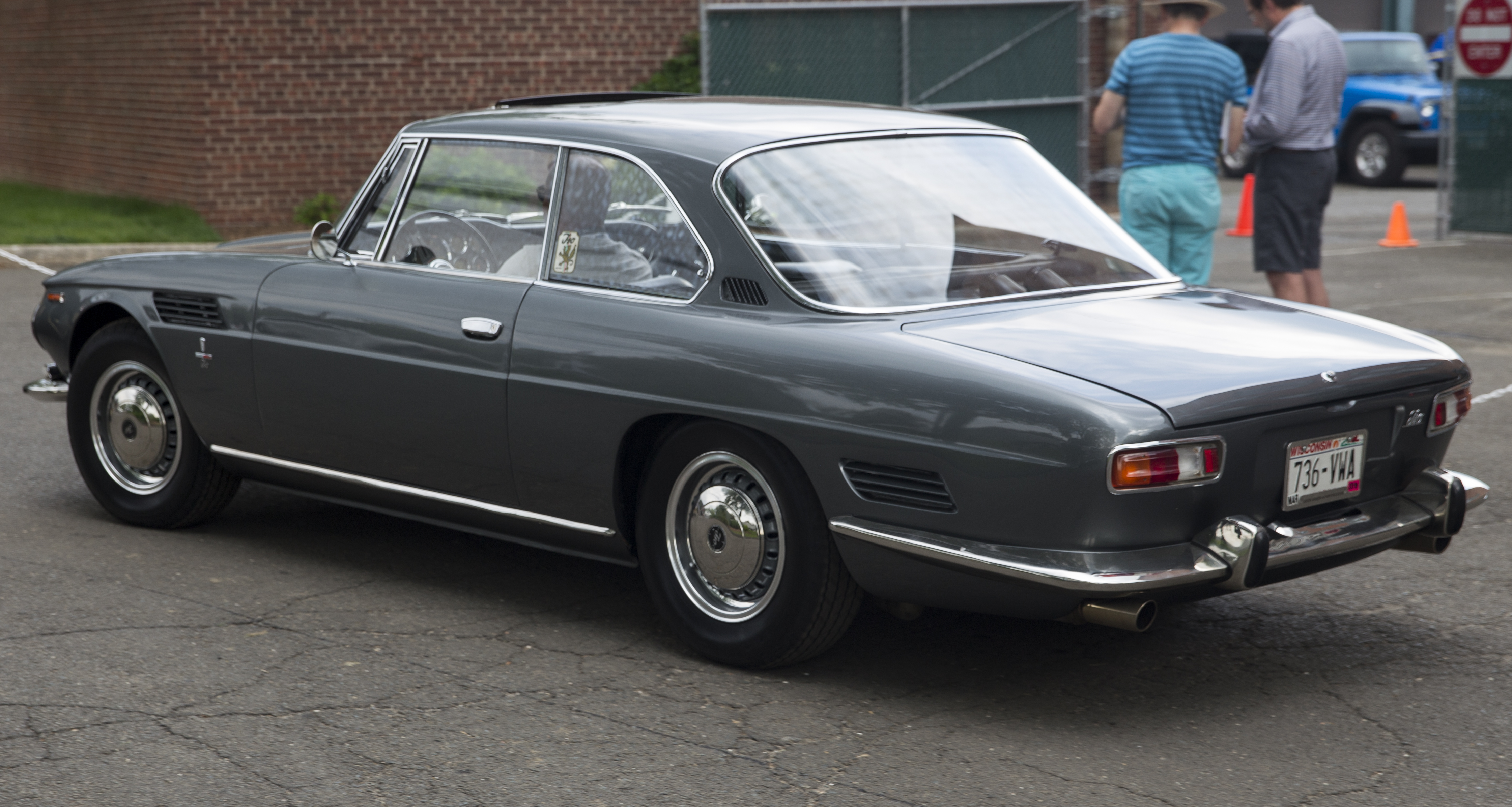 A 1964 Iso Rivolta leaving the 2019 Greenwich Concours d'Elegance.